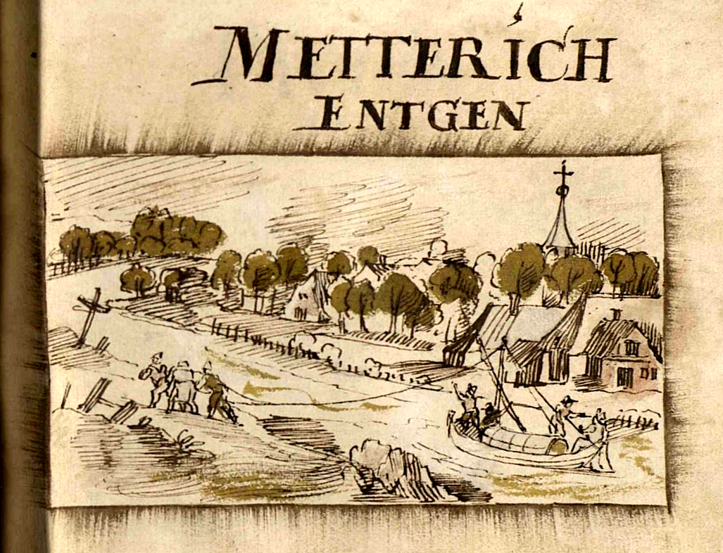 "Metterich Entgen" by Jean Bertels, ~1597